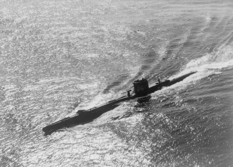 British U class submarine HMSM VARANGIAN underway.